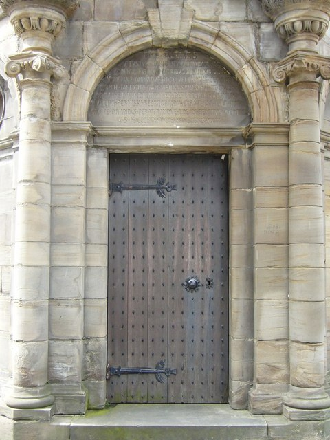 Mercat Cross doorway, High Street